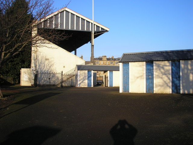 The Turnstiles at Goldenacre The Turnstiles and the stand at the Warriston Gardens entrance to Goldenacre. During the winter months rugby union football is played at Goldenacre. The home team, Heriots, was originally the club for the former pupils of George Heriot's school. The club is now an open club. On a Saturday morning the sports ground is used by the school teams.